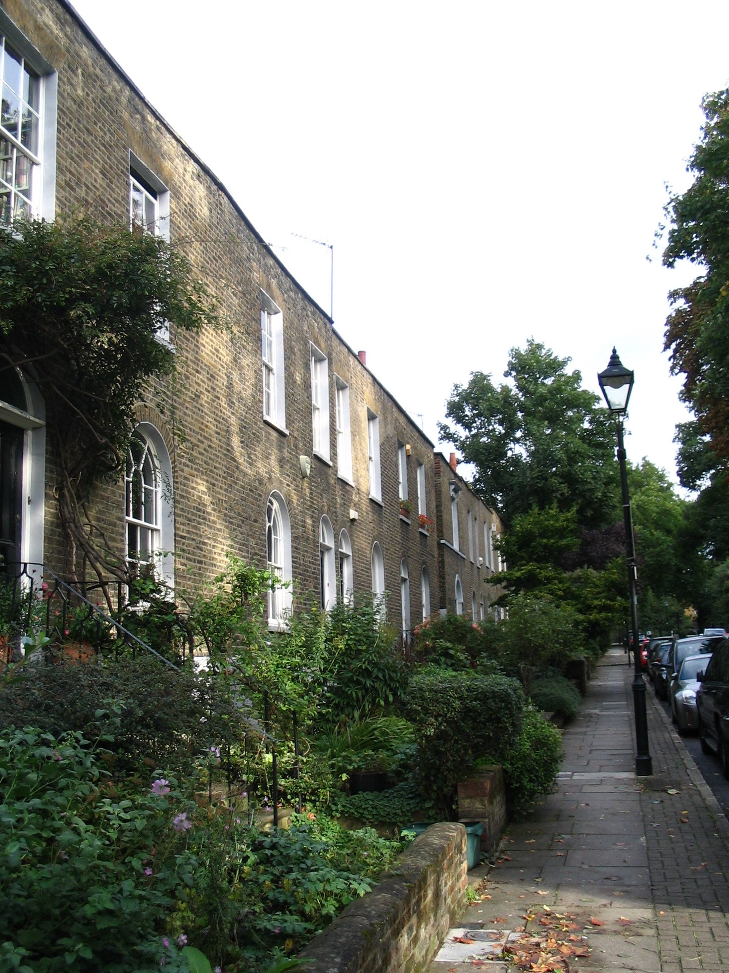 Alwyne Villas, west side from the South